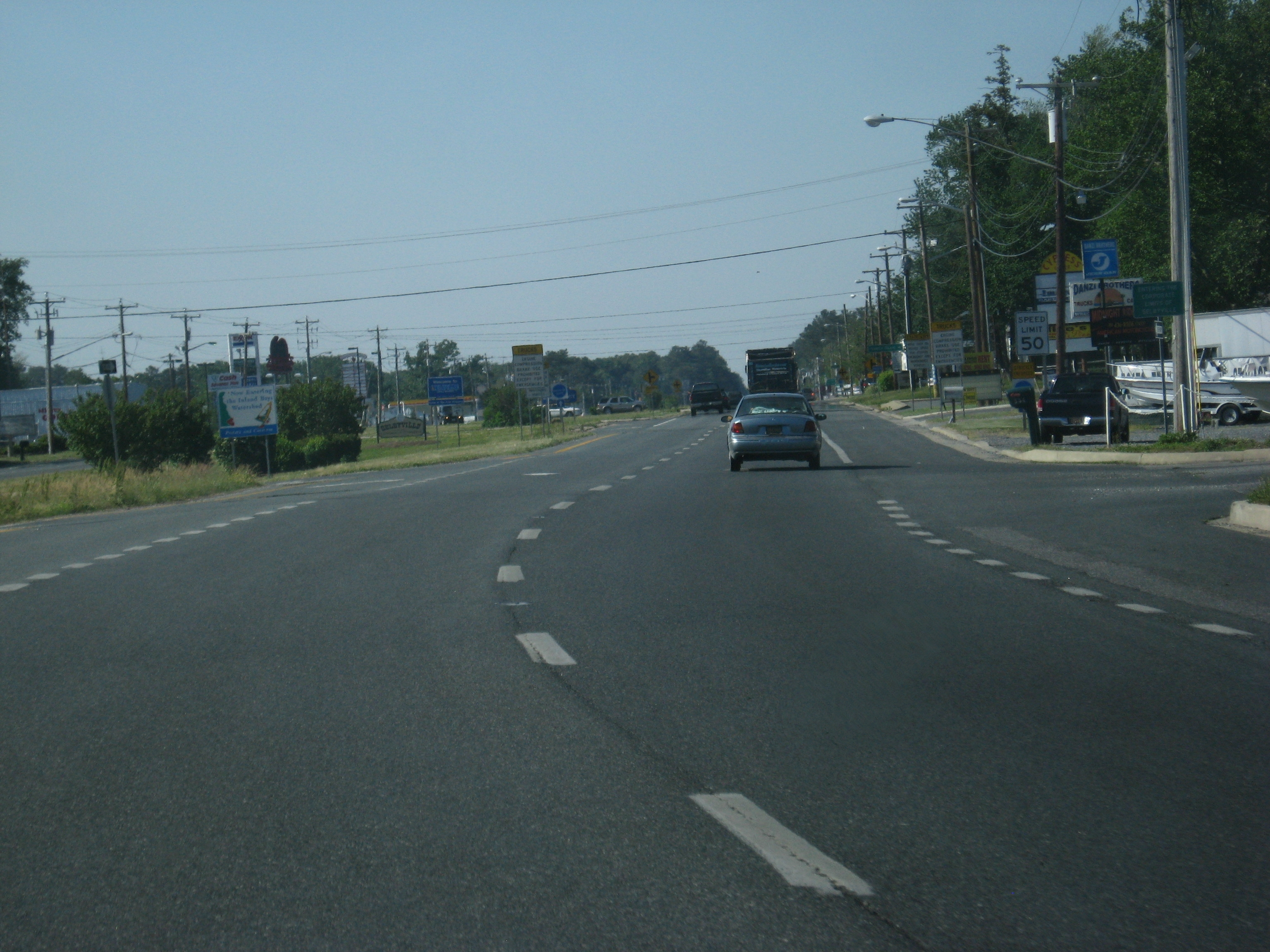 Northbound view of US 113 at the state line in Selbyville, DE.